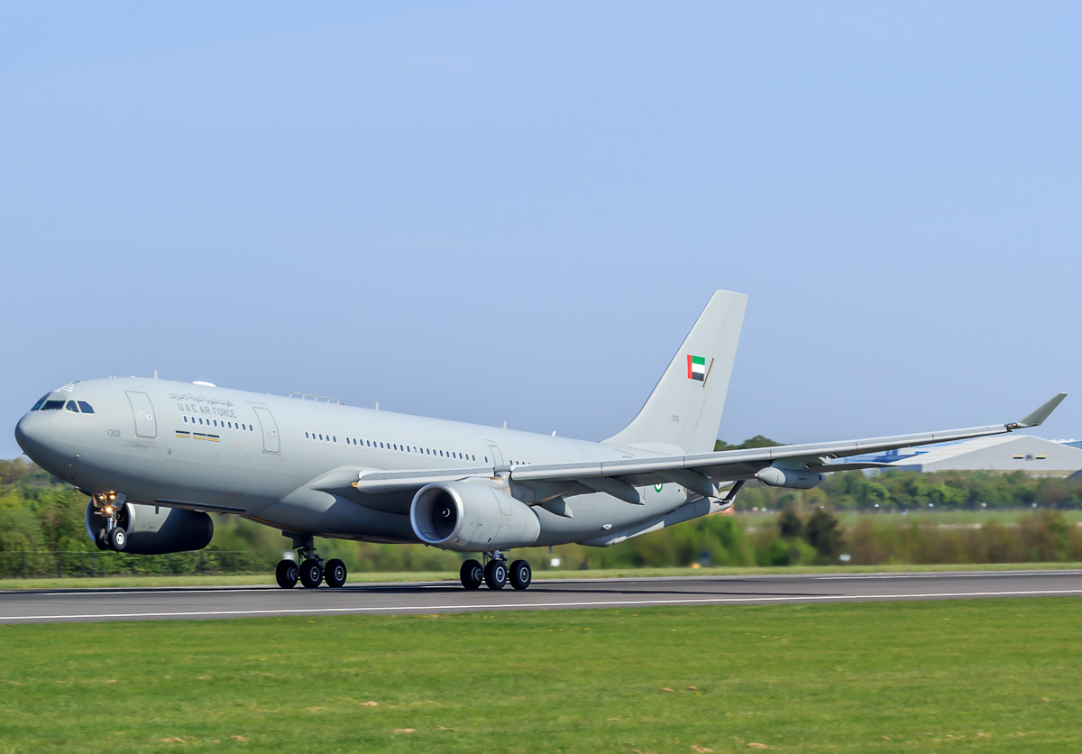 United Arab Emirates Airbus A330 MRTT taking off at Manchester Airport